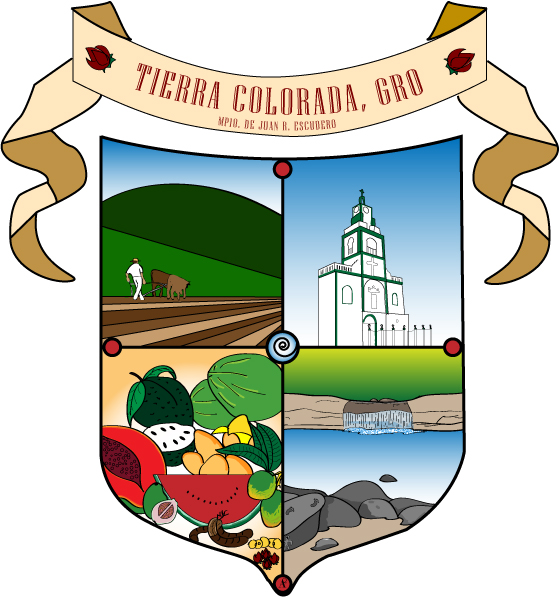 Own interpretation Illustration of the Coat of Arms of Tierra Colorada, Guerrero, México